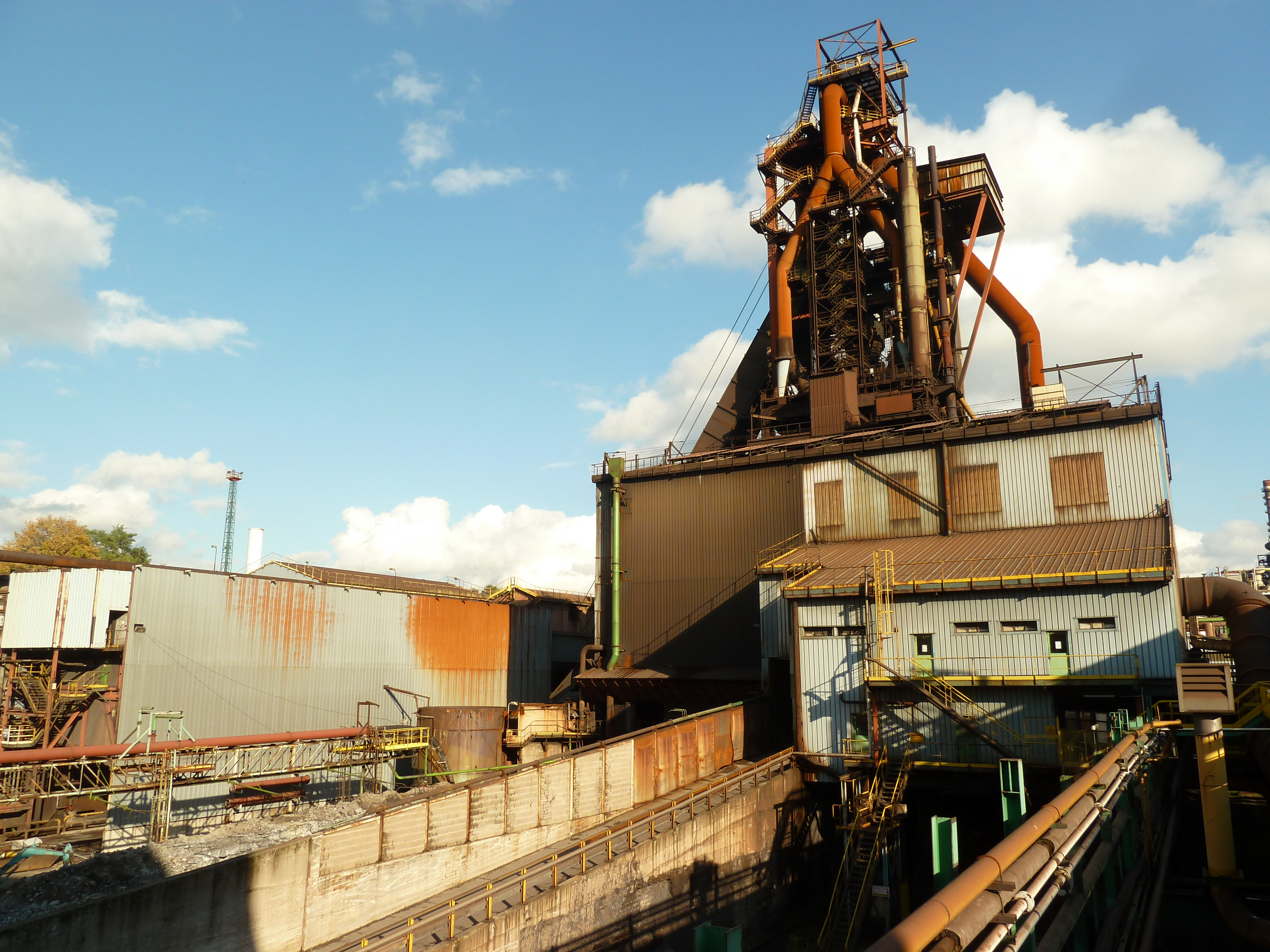 Patural Blast furnace P6, at Hayange, Moselle, France.